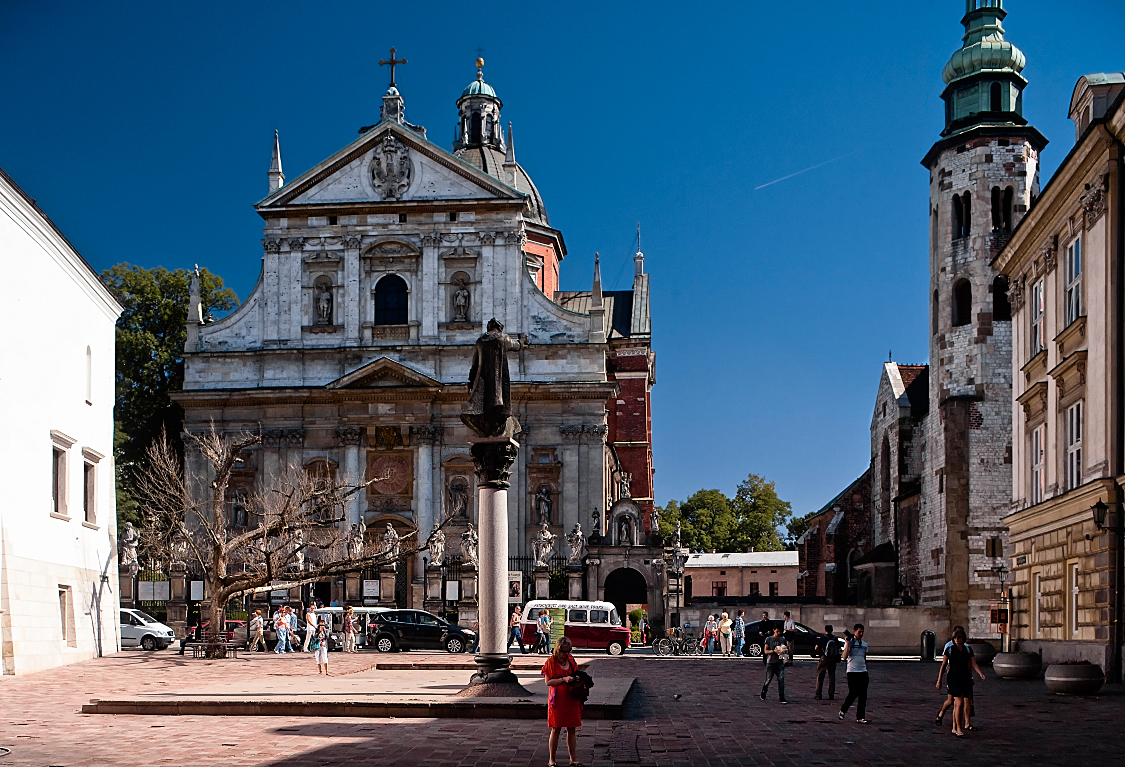 The Saints Peter and Paul Church in Krakow.